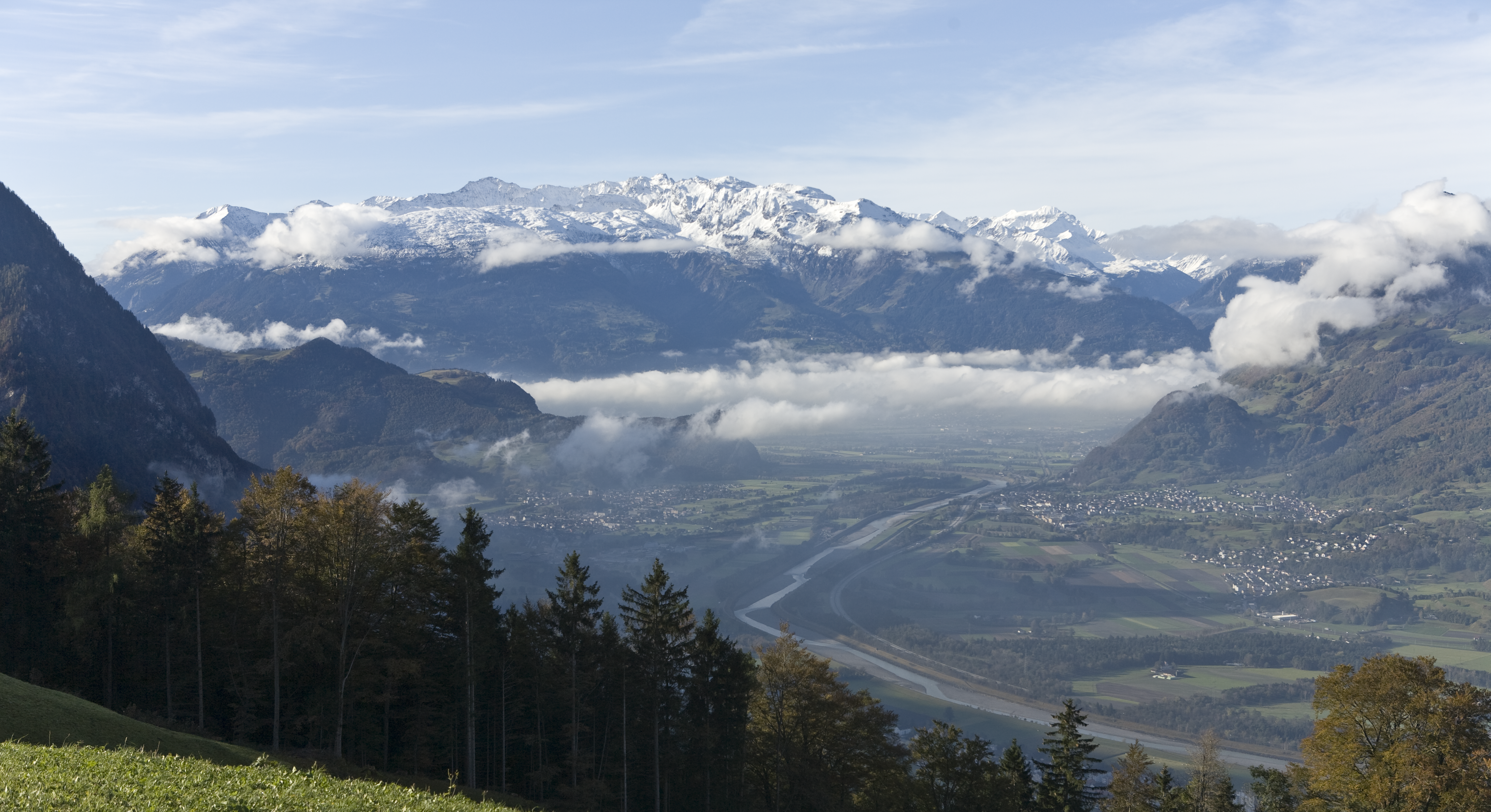 Rhine between Balzers (Liechtenstein) and Warthers (Swizerland)